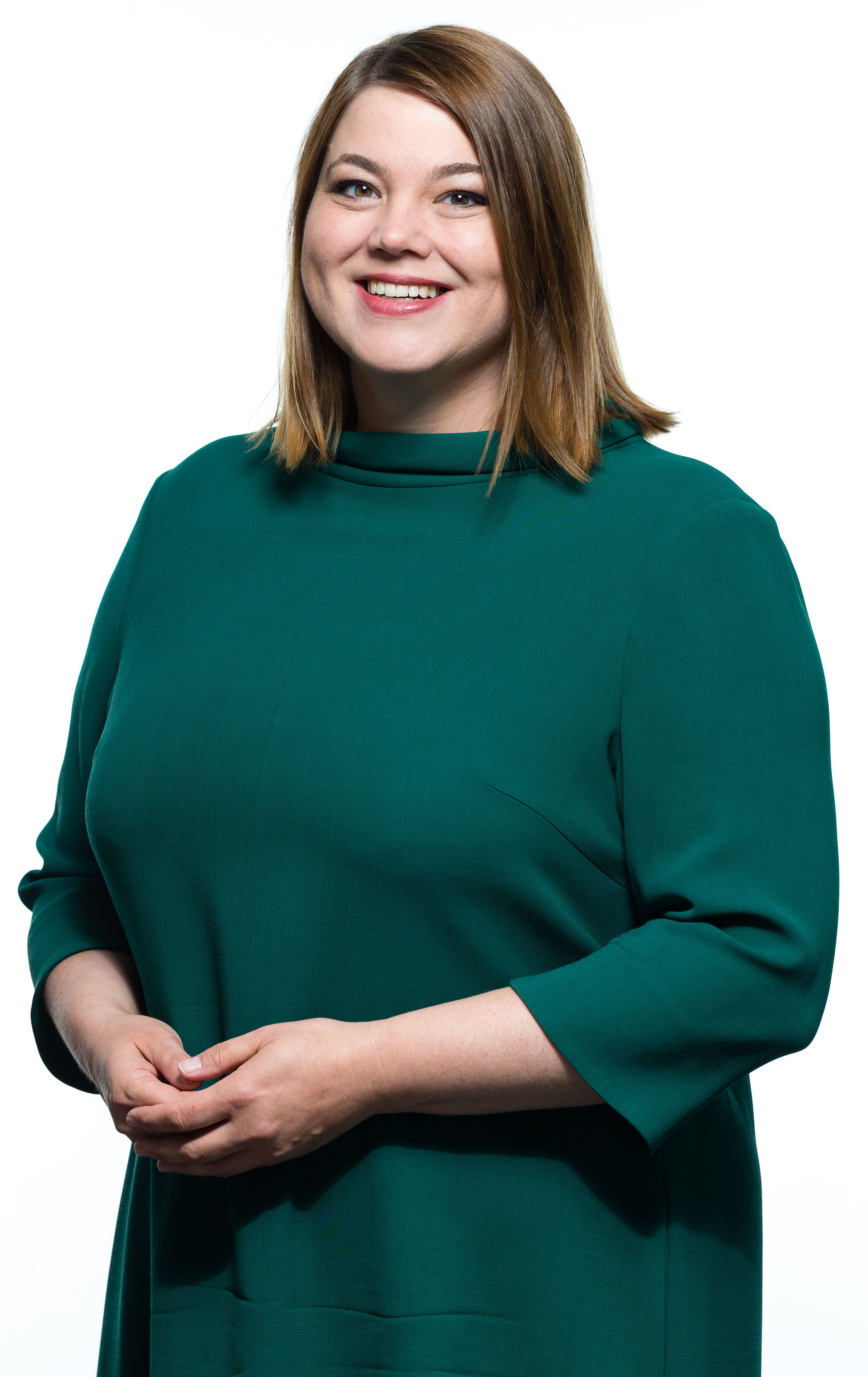 Katharina Fegebank, Second Mayor and Senator for Science, Research and Equal Rights, Free and Hanseatic City of Hamburg